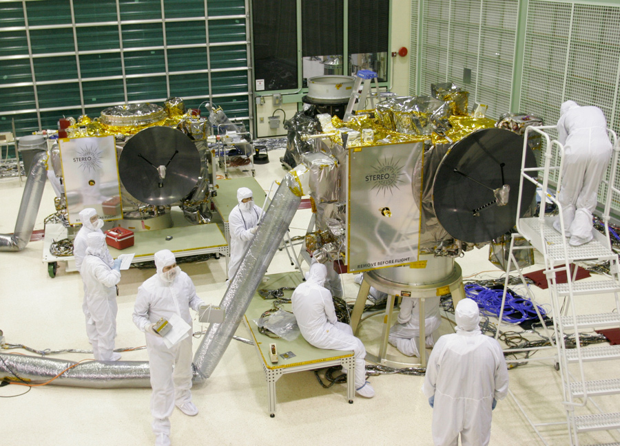 The STEREO spacecraft in the Goddard Space Flight Center cleanroom, Greenbelt, MD.